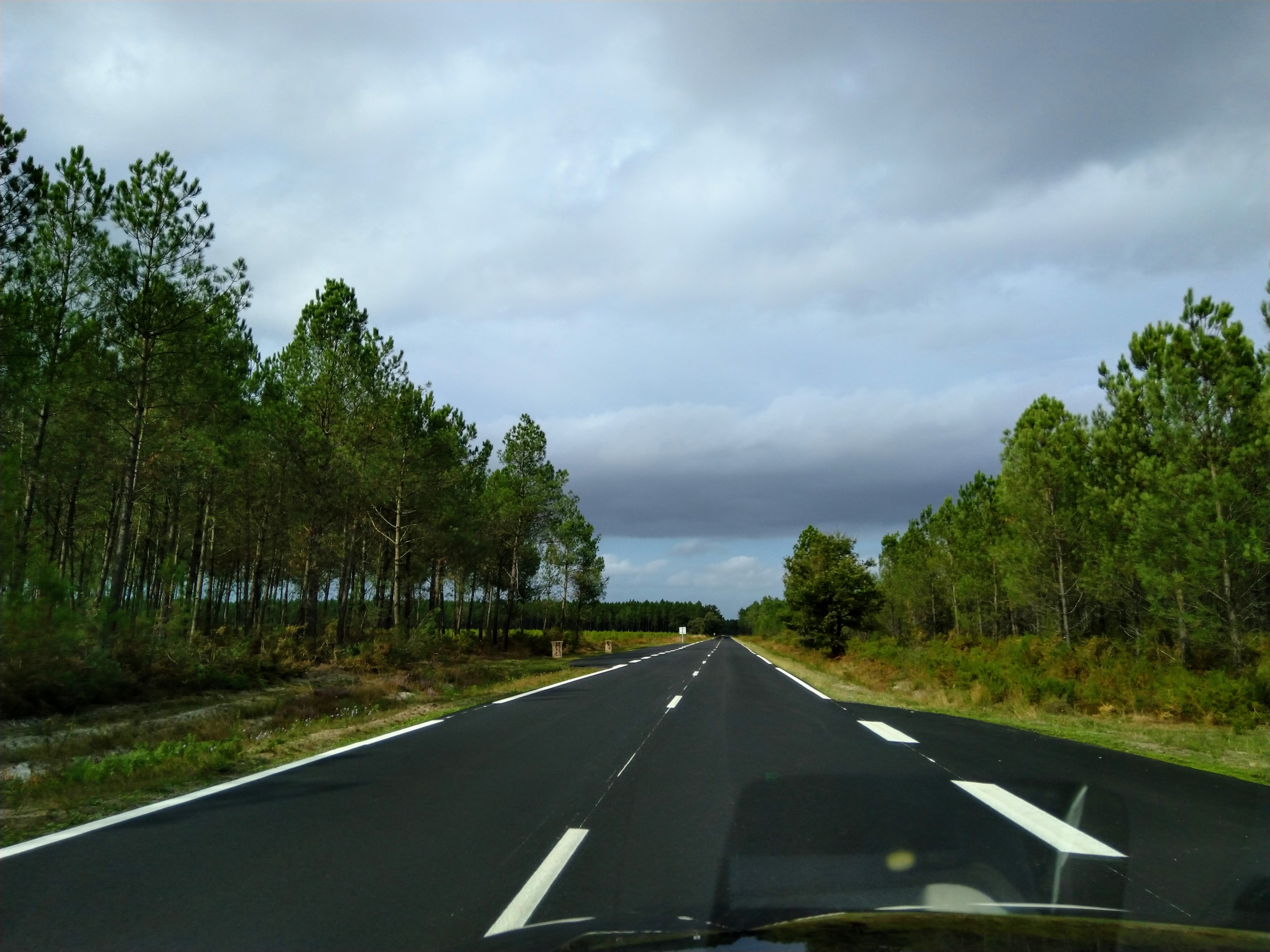 near Pissos